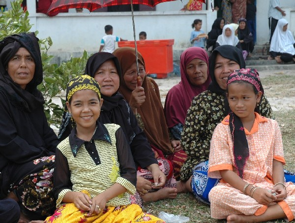 Cham Muslims in Cambodia.